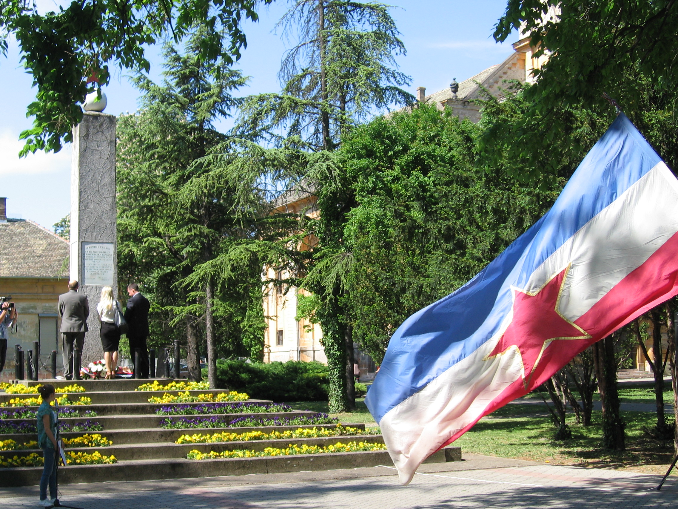 Commemoration of the Victory day in Vrbas 2016.